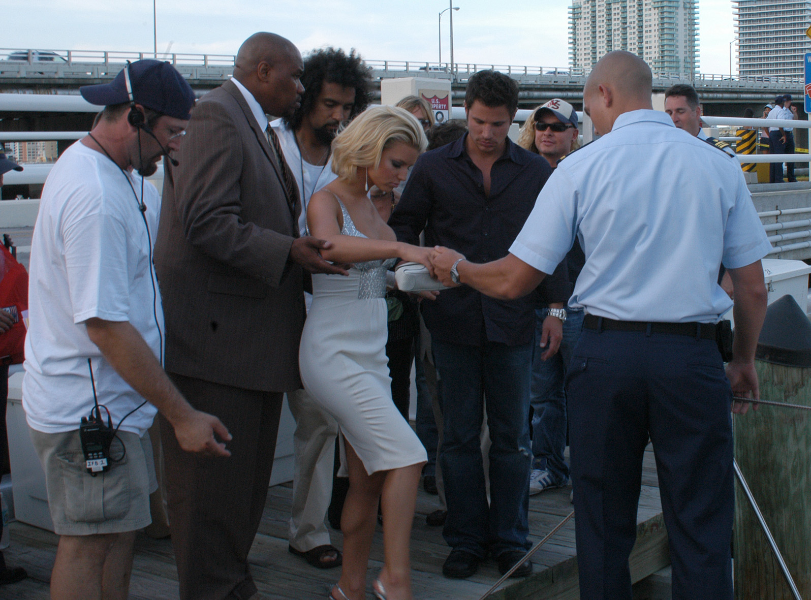 MIAMI (Aug. 29, 2004) -- MTV 2004 Video Music Awards performer Jessica Simpson poses for a picture at ISC Miami. USCG photo by PA2 Anastasia Burns.